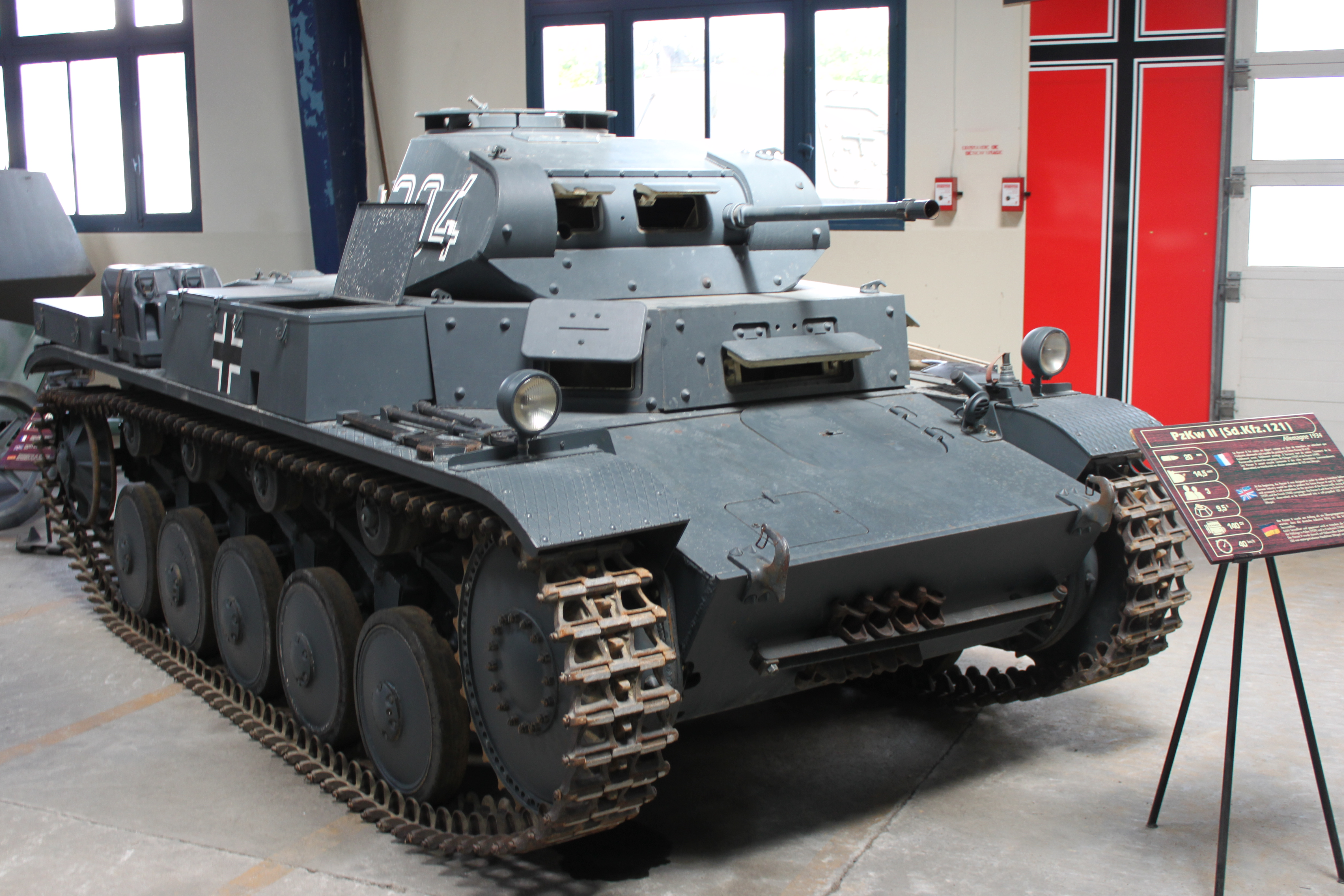 German Panzer II (WW II) at the Musée des Blindés in Saumur (France)